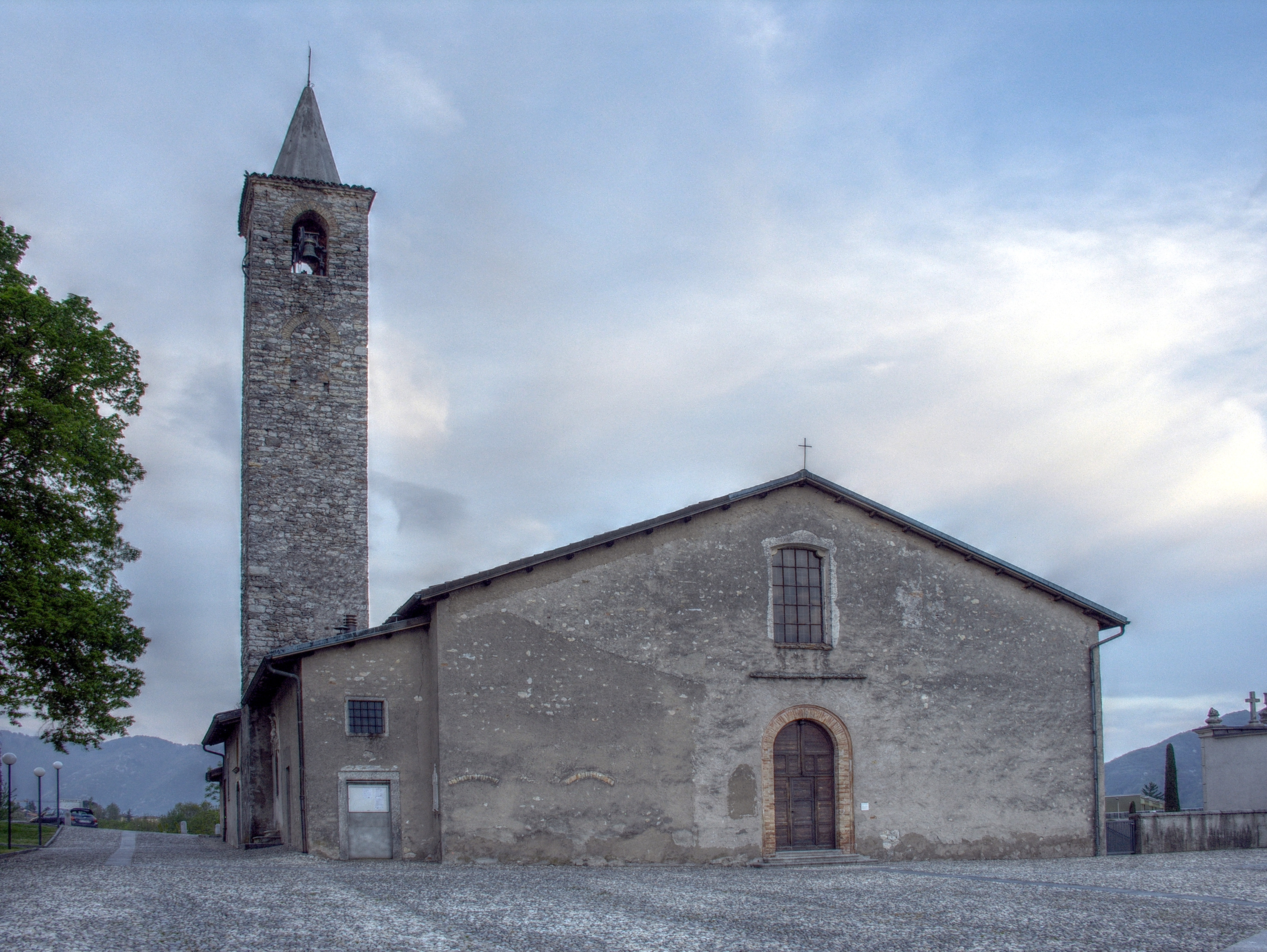 Morbio Inferiore, Tessin, Switzerland - San Giorgio church - Front view